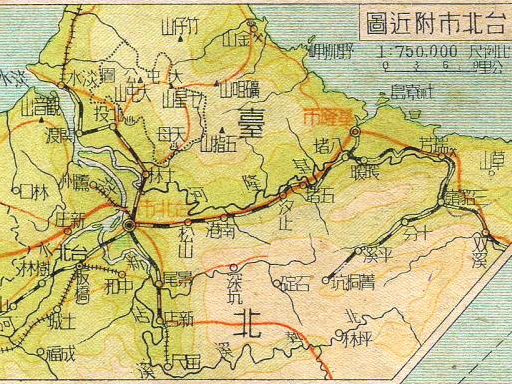 Map of Taipei County